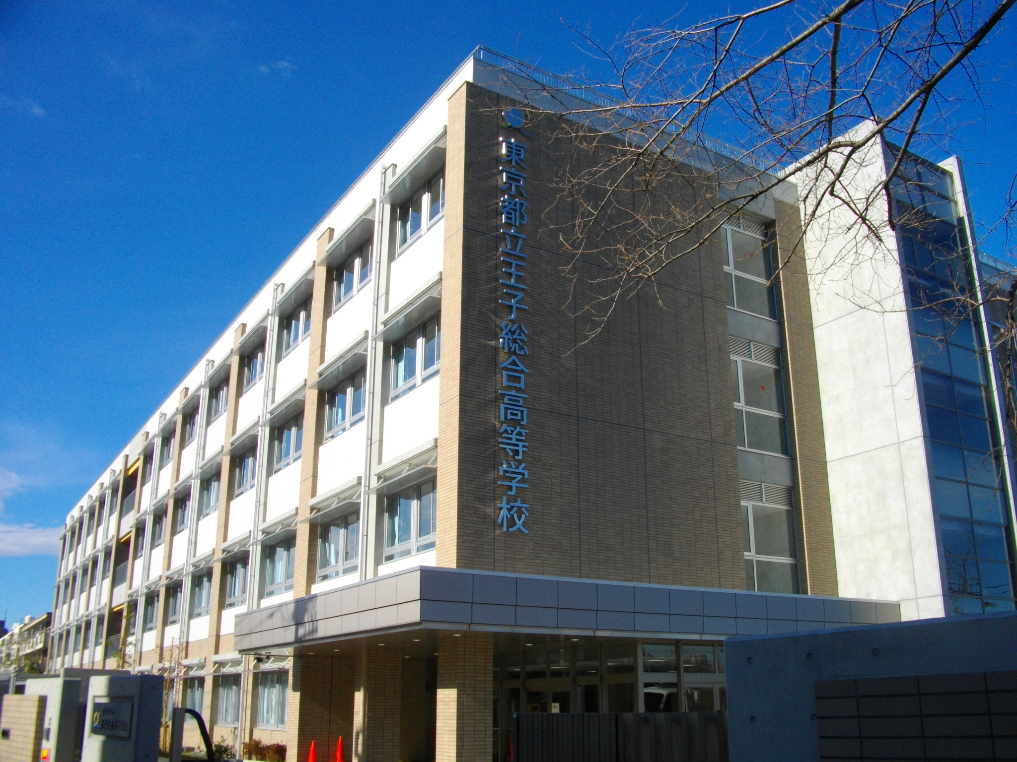 Oji Sogo High School